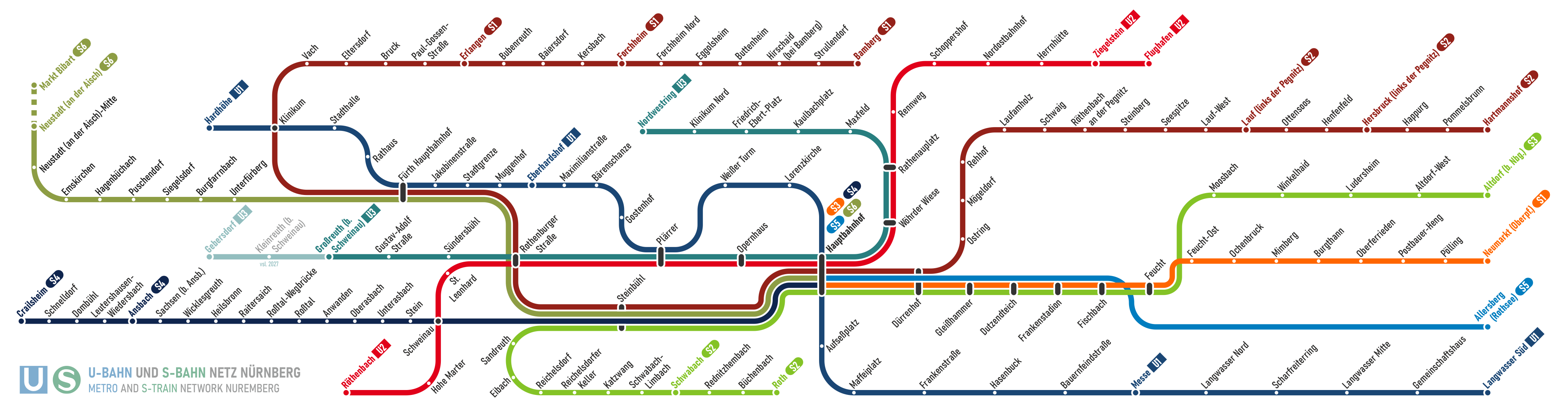 Suburban Train and Metro (Undergraund Train) in Nuremberg